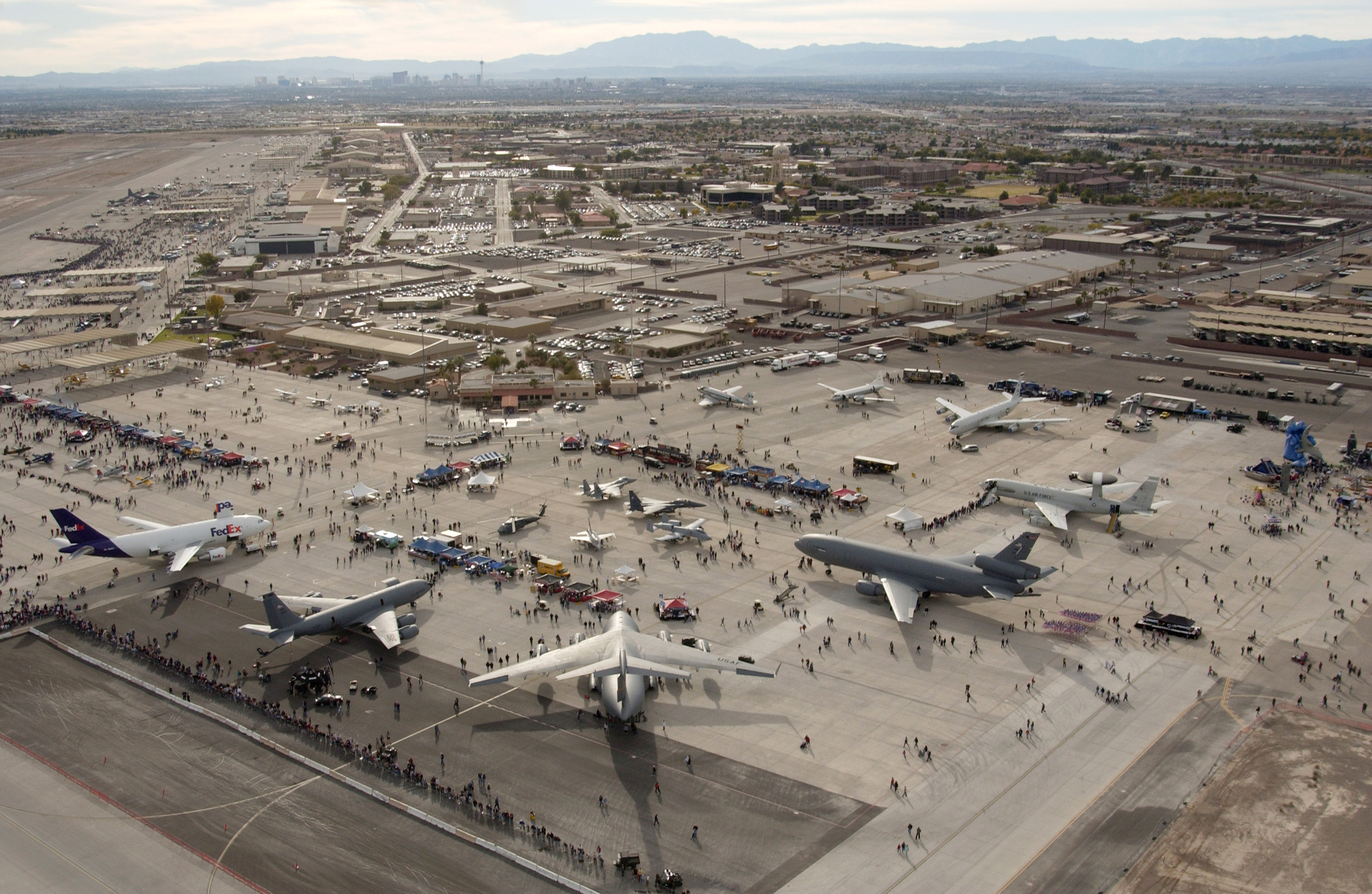 An aerial view of the flightline shows the city of Las Vegas in the distance during Aviation Nation 2006 Nov. 12 at Nellis Air Force Base, Nev. It is one of the largest aviation events in North America. The show was held Nov. 11 and 12.